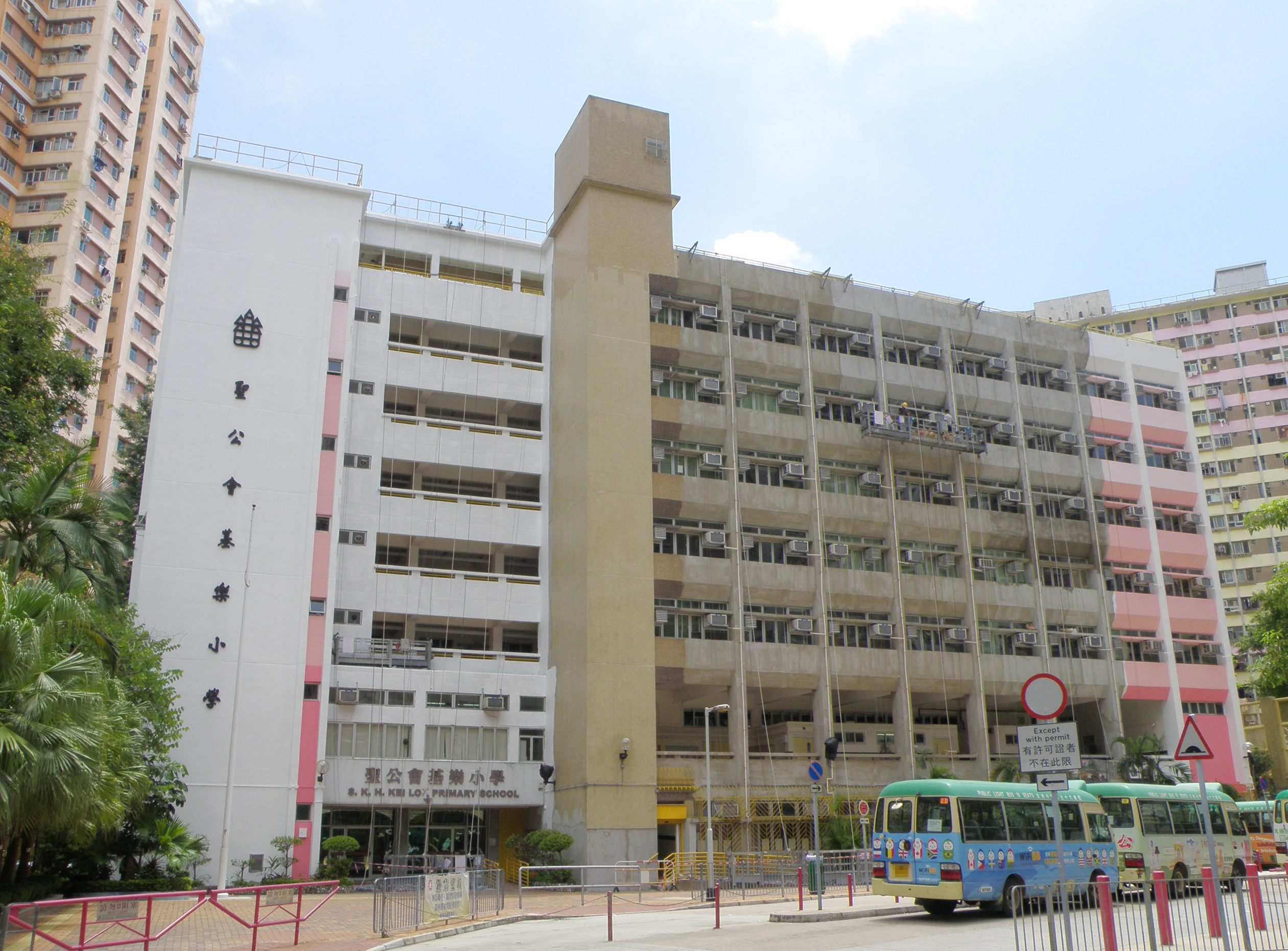 S.K.H. Kei Lok Primary School in Ngau Tau Kok, Hong Kong.